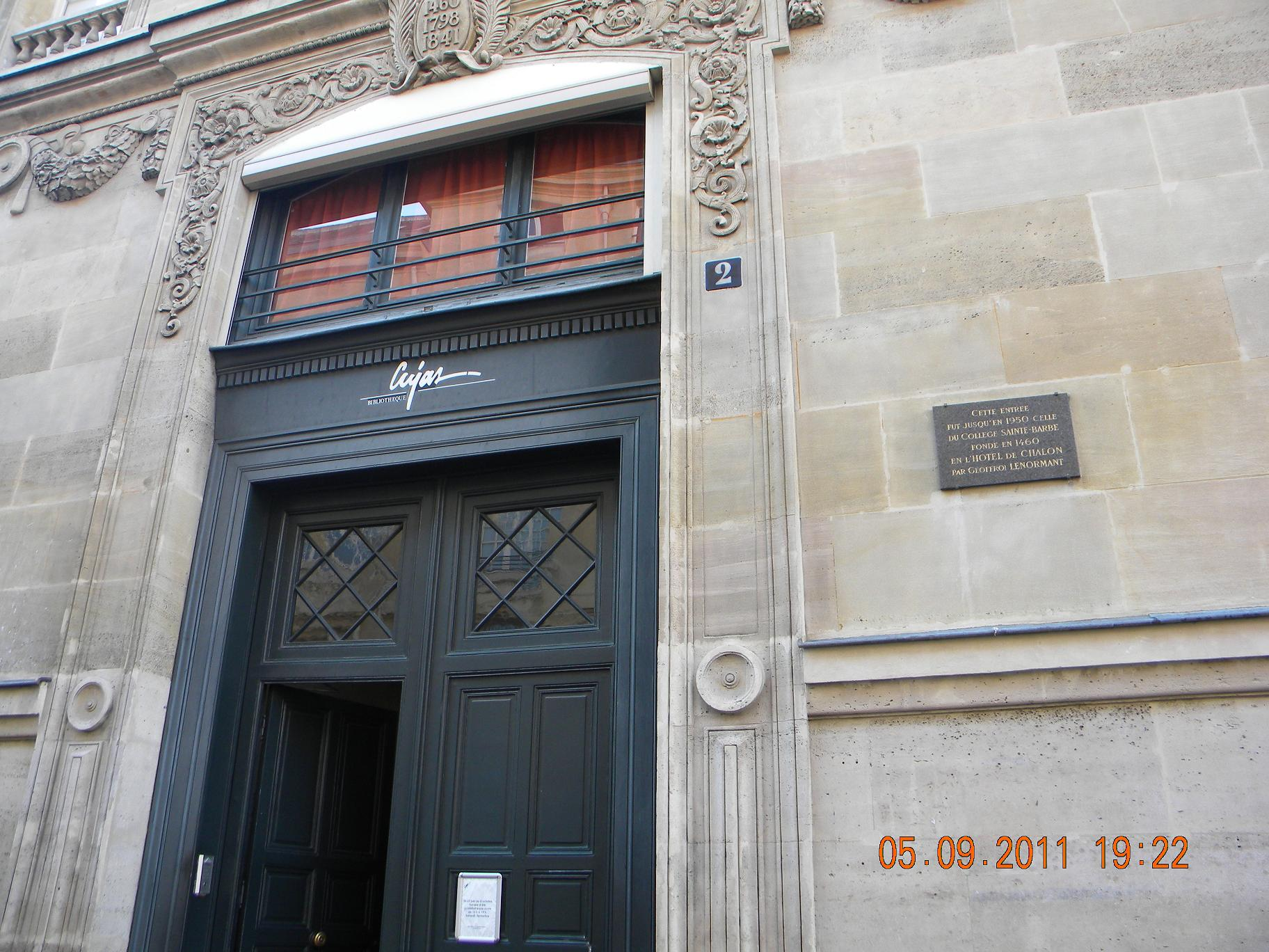 Biblioteque Cujas on Cujas Street, Paris